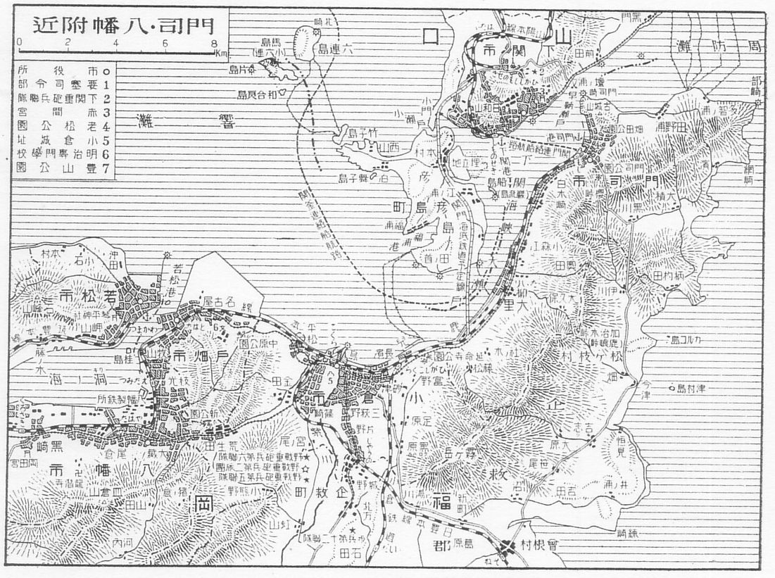 Kitakyushu map circa 1930